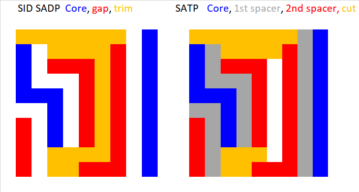 SATP processes the same patterns as SID SADP but an extra spacer is used to fill the gap, which allows less overlay sensitivity for the trim/cut mask.